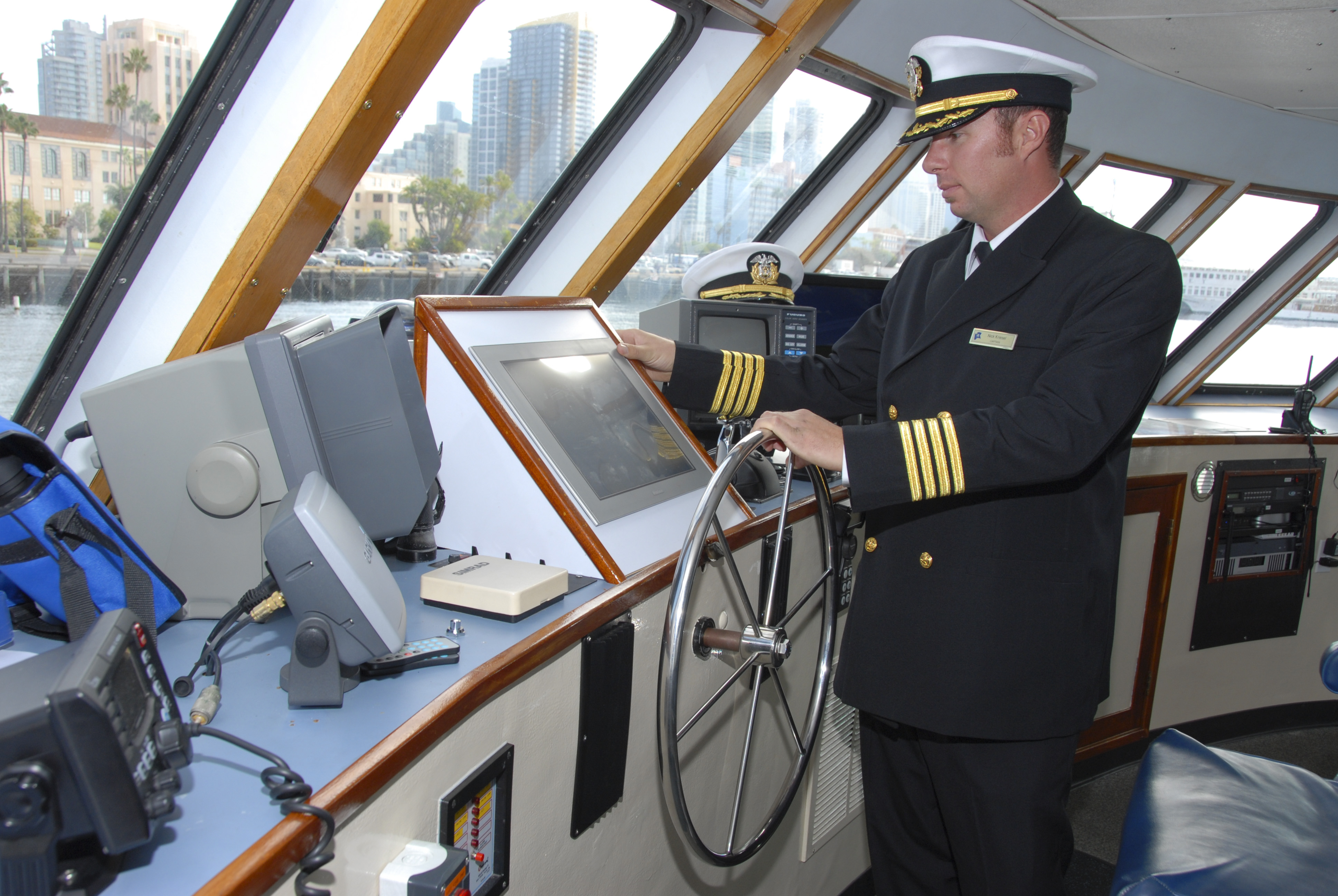 The Captain of Hornblower Hybrid on the deck